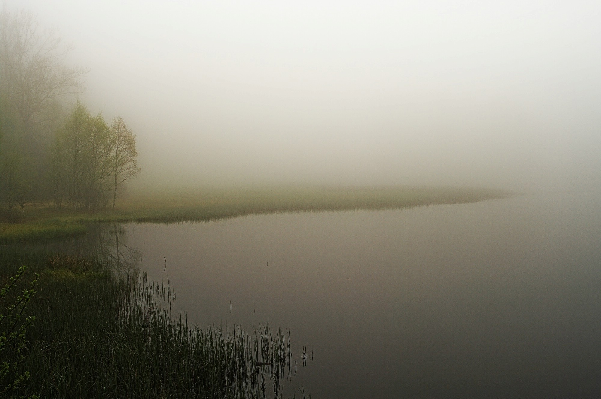 Klosterweiher, a lake near Dachsberg, Black Forest